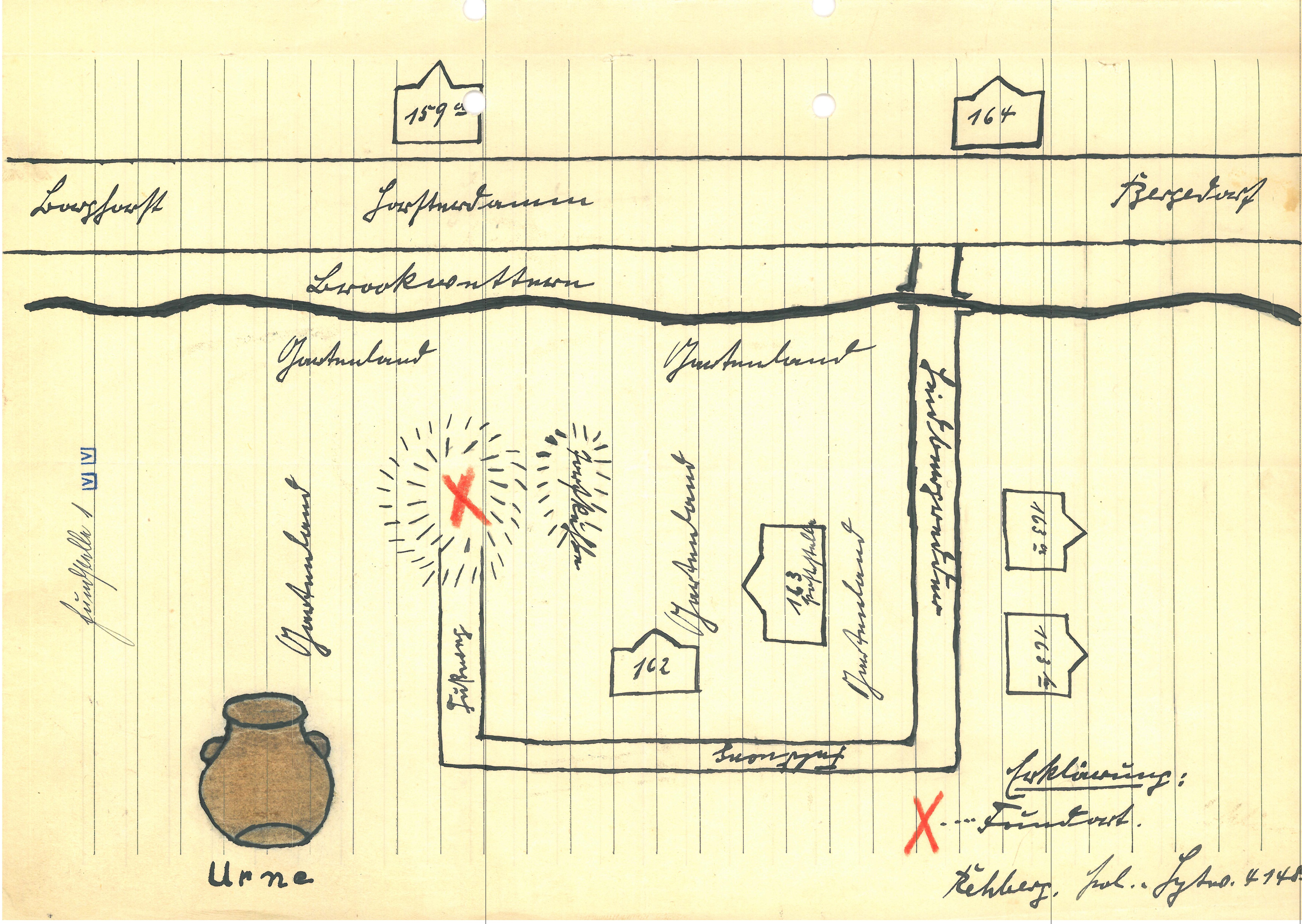 Police report page 4 dated 2nd September 1931 regarding the archaeological find of the Holsteiner girdle of Hamburg-Altengamme. Archaeological Museum Hamburg Hamburg-Harburg, Germany.